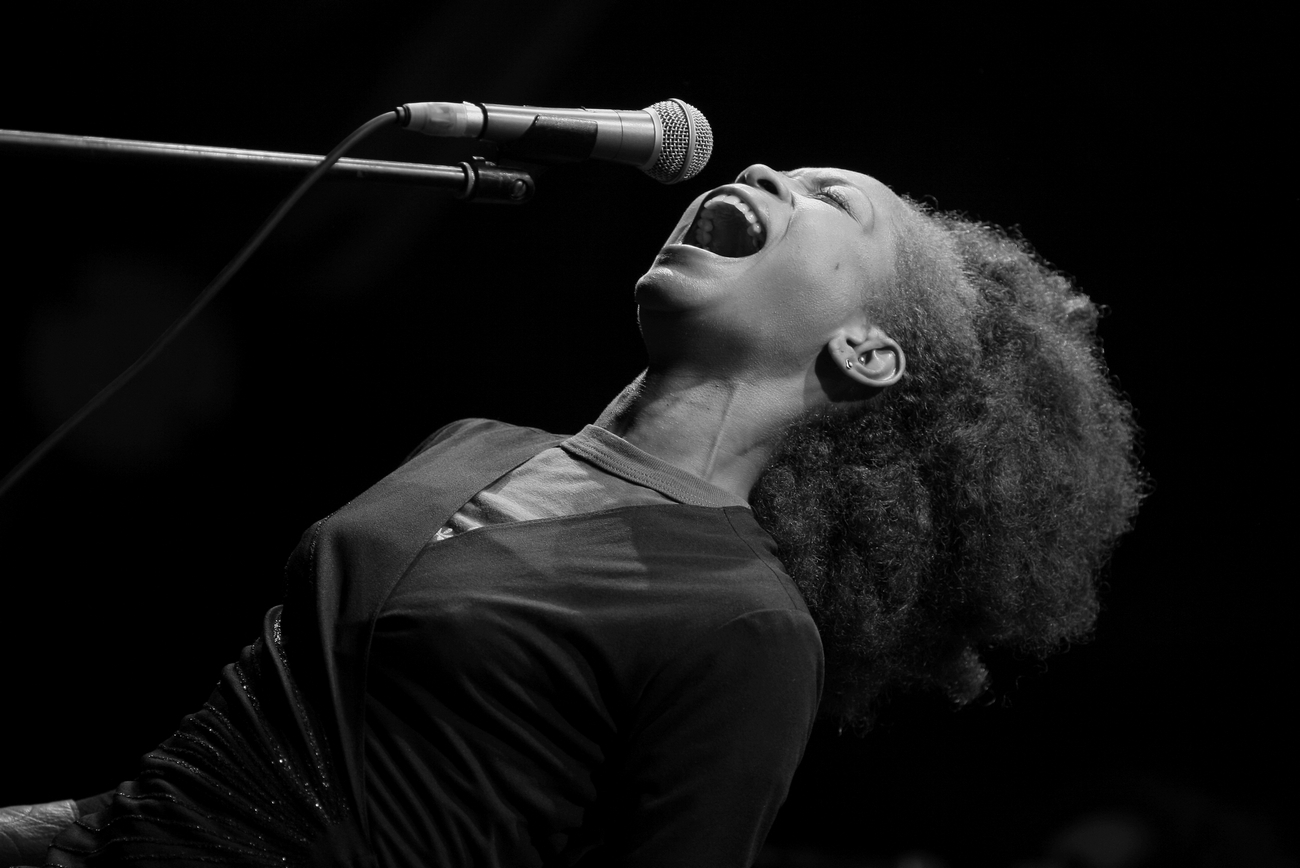 Erykah Badu; Live in Bruges, Belgium - 2006